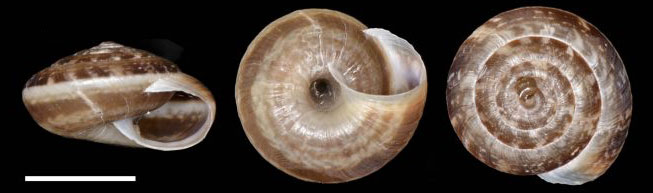 Composition of the 3 main views of the shell of Xeroplexa arrabidensis. Locality: Serra da Arrábida, Setúbal (Portugal)